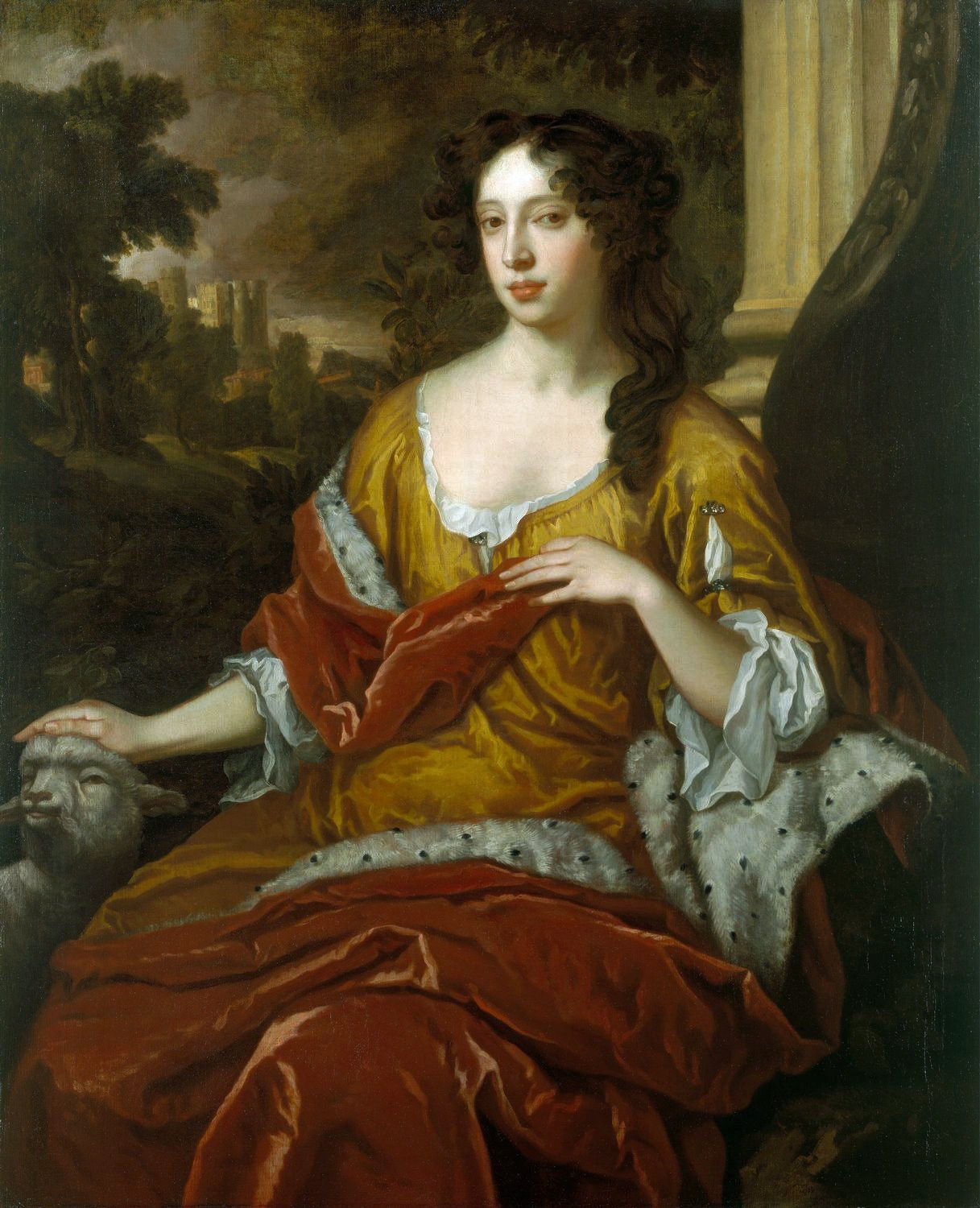 Portrait of Mary of Modena, when Duchess of York